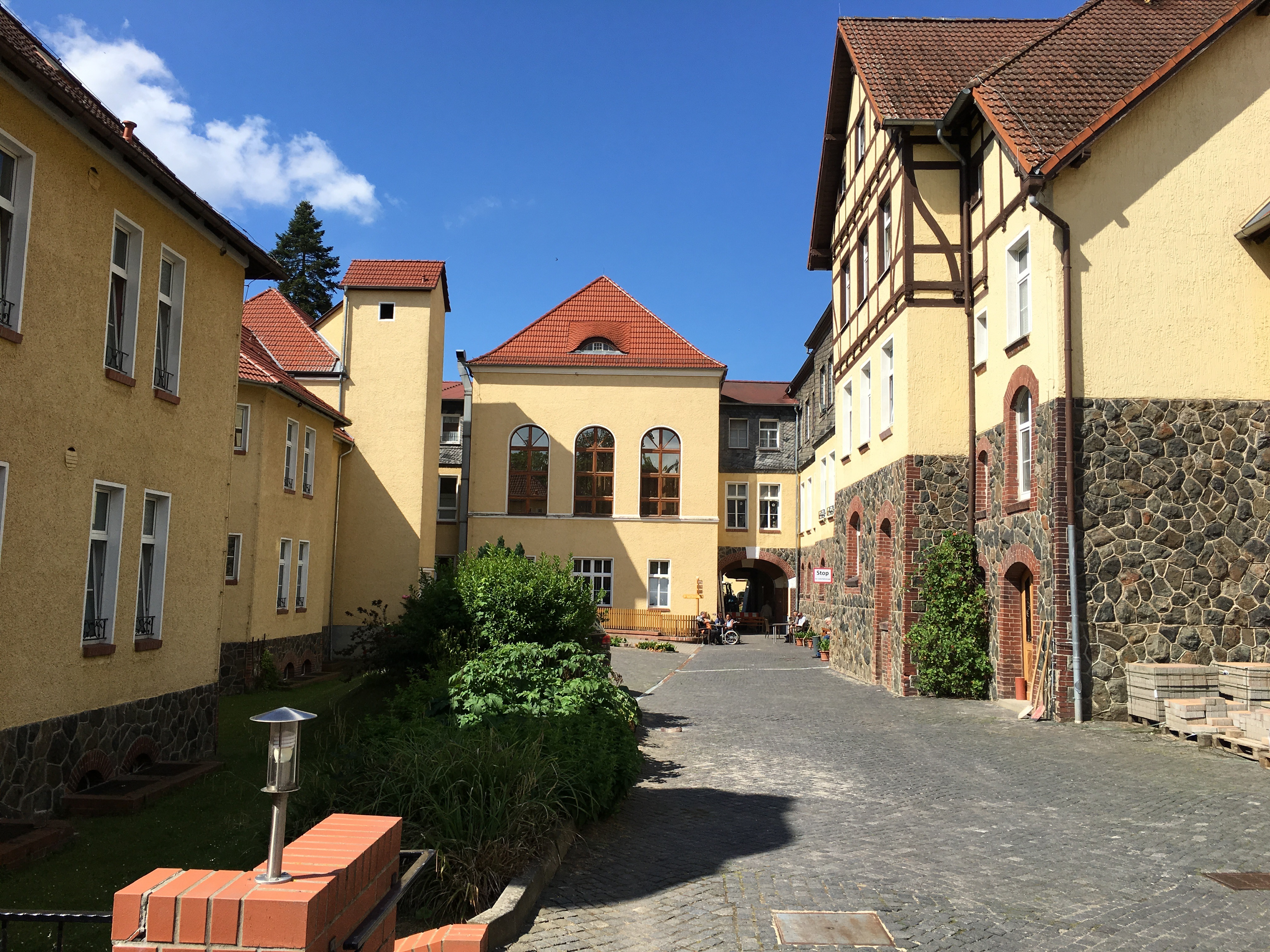 Lungenheilstätte Schielo erbaut 1905